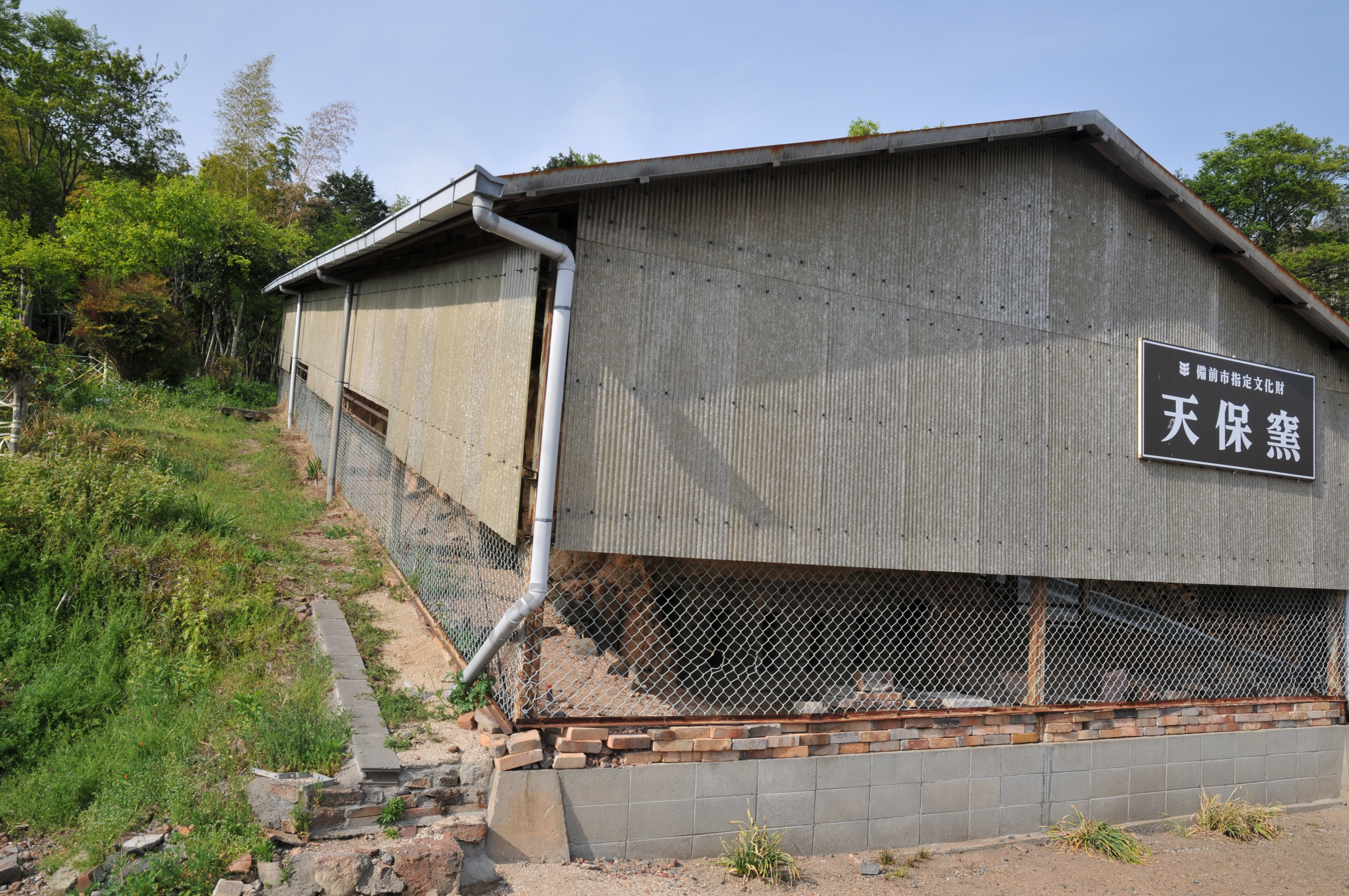 Tenpō-gama coverd building